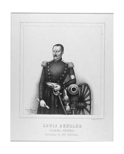 Lithography of Colonel Louis Denzler (1806-1880), Swiss military and politician.